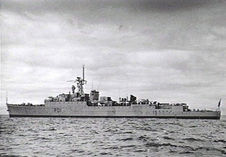 AWM Caption: Port Phillip Bay, Victoria (Australia), 1953. Port side view of the former destroyer HMAS Quadrant (F01) after her conversion to an anti submarine frigate. Externally her destroyer origins are indicated only by her funnel and hull as all superstructure above the upper deck has been replaced. The ship's new armament consists of a twin 40 mm Bofors Mark 5 AA mounting forward and 4 inch mark 16 guns in a twin mark 19 mounting aft. Note the launching rails for flare rockets fitted to the side of the mounting. The guns are controlled by the close range blind fire director sited just forward of the 4 inch mounting. a squid anti submarine mortar is fitted aft and is a distinguishing feature of this vessel, the remainder of the class having the longer barrelled limbo. A type 277 height finding radar is fitted just above the bridge. Type 293q air surface search and type 974 navigation radars are fitted to the foremast. The ship has not yet been commissioned and is flying the red ensign. She is also not fully fitted out, missing her mainmast. (Naval Historical Collection)